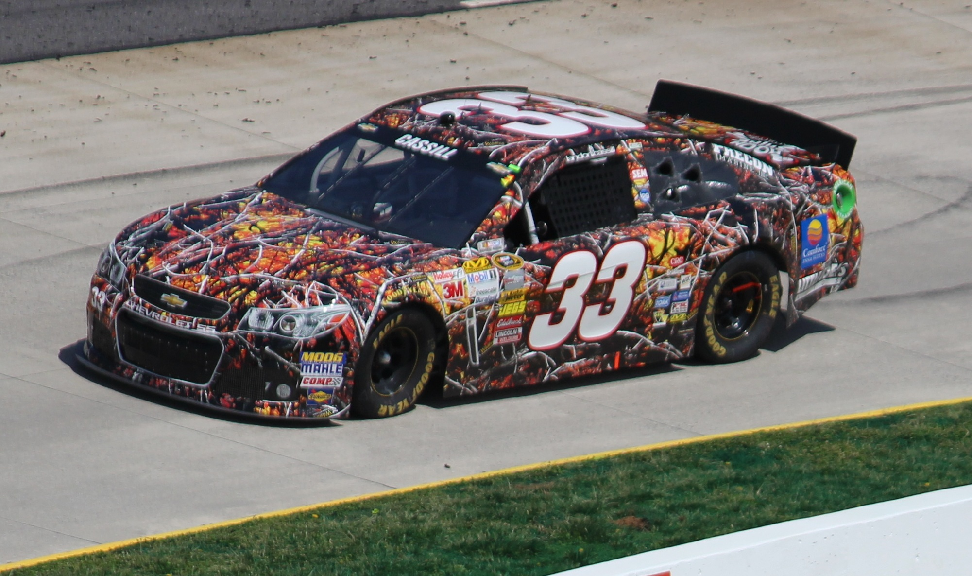 Landon Cassill during the 2013 STP Gas Booster 500 at Martinsville Speedway. (April 7, 2013)